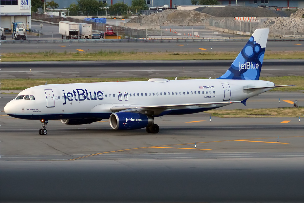 JetBlue Airways, N649JB, Airbus A320-232